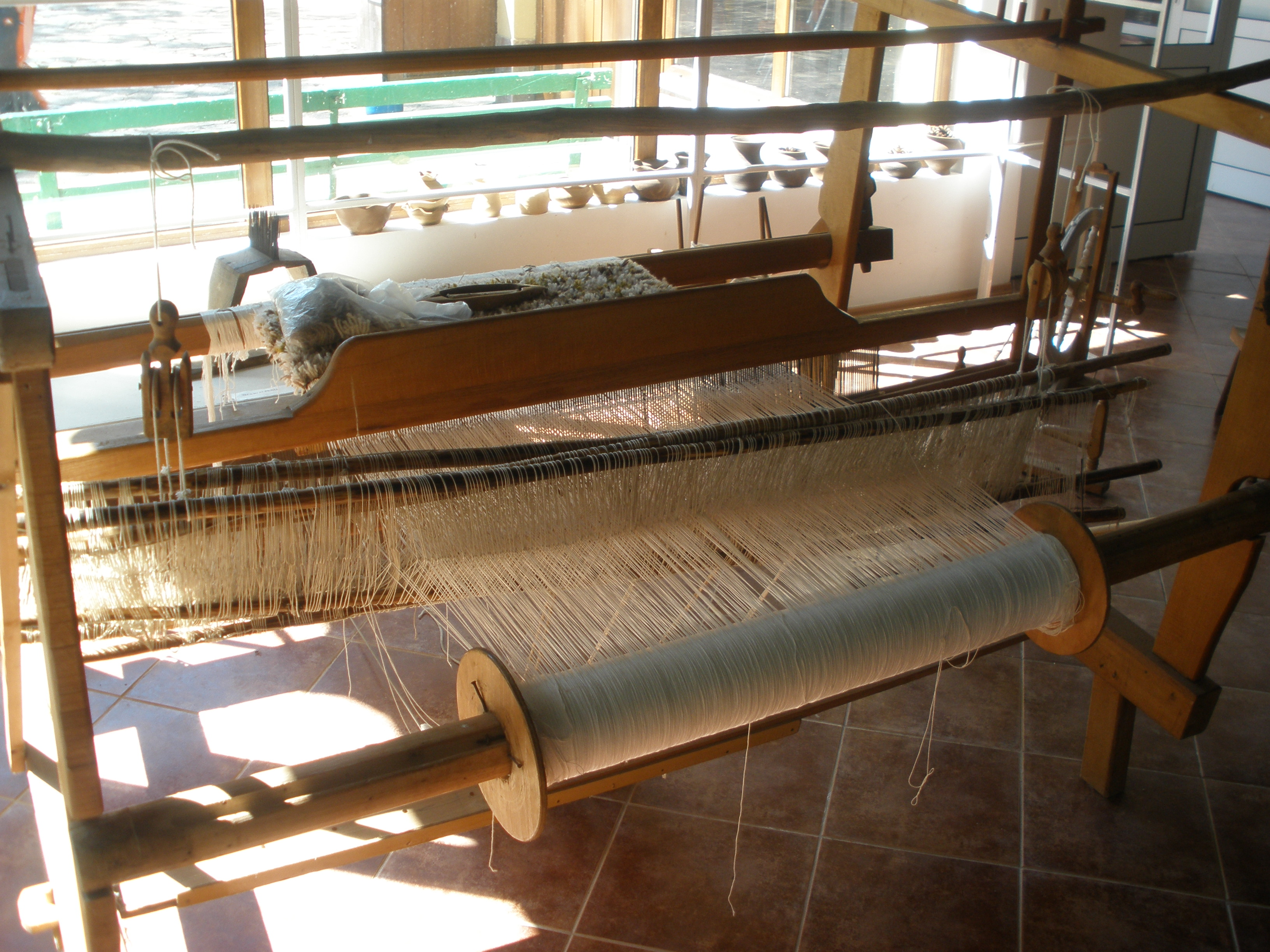 Loom, Oreshak